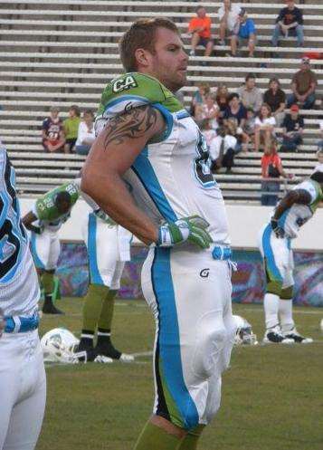 Branden Ledbetter playing for the UFL California Redwoods